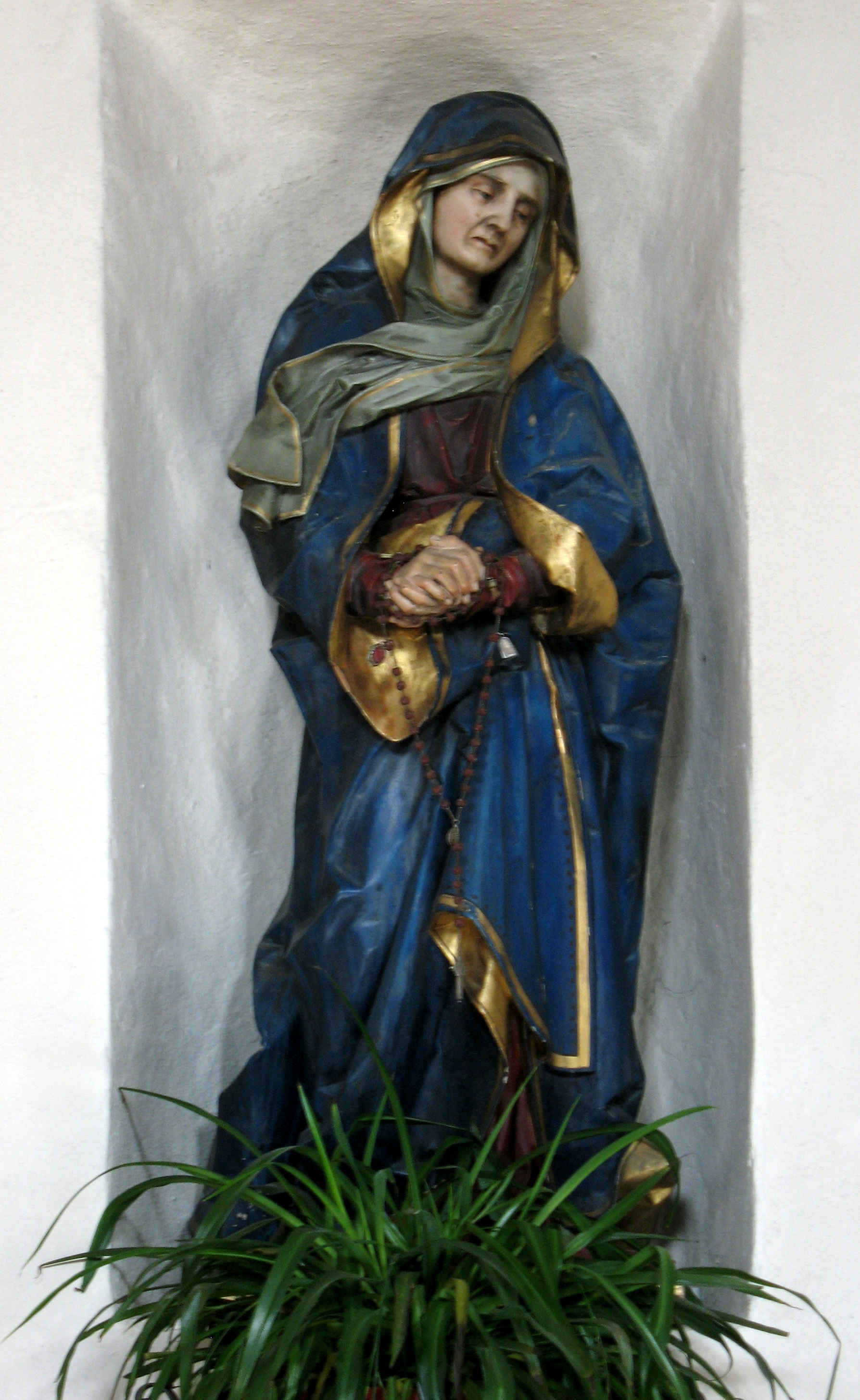 Saint Anna by the Tyrolean sculptor Franz Tavella around 1890